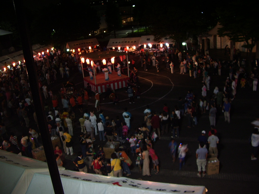 Bondance at Tama Newtown, Inagi